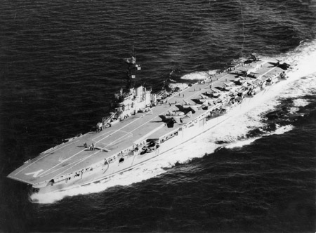 AERIAL PORT SIDE VIEW OF THE AIRCRAFT CARRIER HMAS MELBOURNE (II) THE TYPE 960 AIR SEARCH RADAR AND A TYPE 277 HEIGHT FINDING RADAR, ORIGINALLY MOUNTED AT THE MASTHEAD AND AT THE REAR OF THE ISLAND RESPECTIVELY,HAVE BEEN LANDED. THE TYPE 293Q AIR/SURFACE SEARCH AT THE MASTHEAD AND THE TWO TYPE 277 HEIGHT FINDING RADARS MOUNTED ABOVE THE BRIDGE REMAIN. EIGHT FAIREY GANNET ANTI SUBMARINE AIRCRAFT ARE SPOTTED ON THE FLIGHT DECK. (NAVAL HISTORICAL COLLECTION)